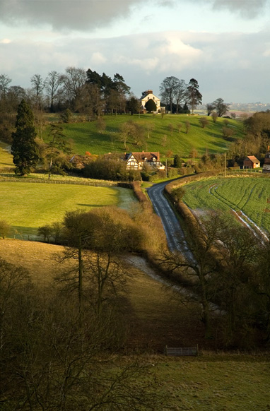 This was a view taken during snowy weather from the hill upon which Hanbury Church resides. The white house on the top of the hill is The Mount, formerly owned by the Vernon family and once home to the family of Henry Bearcroft (a younger son of the family of nearby Mere Hall) and his wife, the former Miss Ellen Vernon, whose father, George Croft Vernon, had previously lived at The Mount following his retirement from legal practice in Bromsgrove.